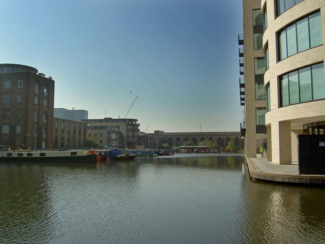 Basin on the Regent Canal east of York Way Kings Cross The London Canal Museum is situated at the head of the basin. The towpath west of here is currently closed, a diversion exists around the rear of St Pancras railway station rejoining off Camley Street.